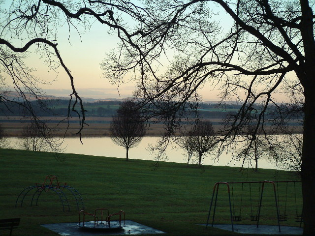 South Deep and Mugdrum Island, Firth of Tay, Scotland Looking north from Newburgh across the South Deep shipping channel in the Tay to Mugdrum Island, covered in reed beds.